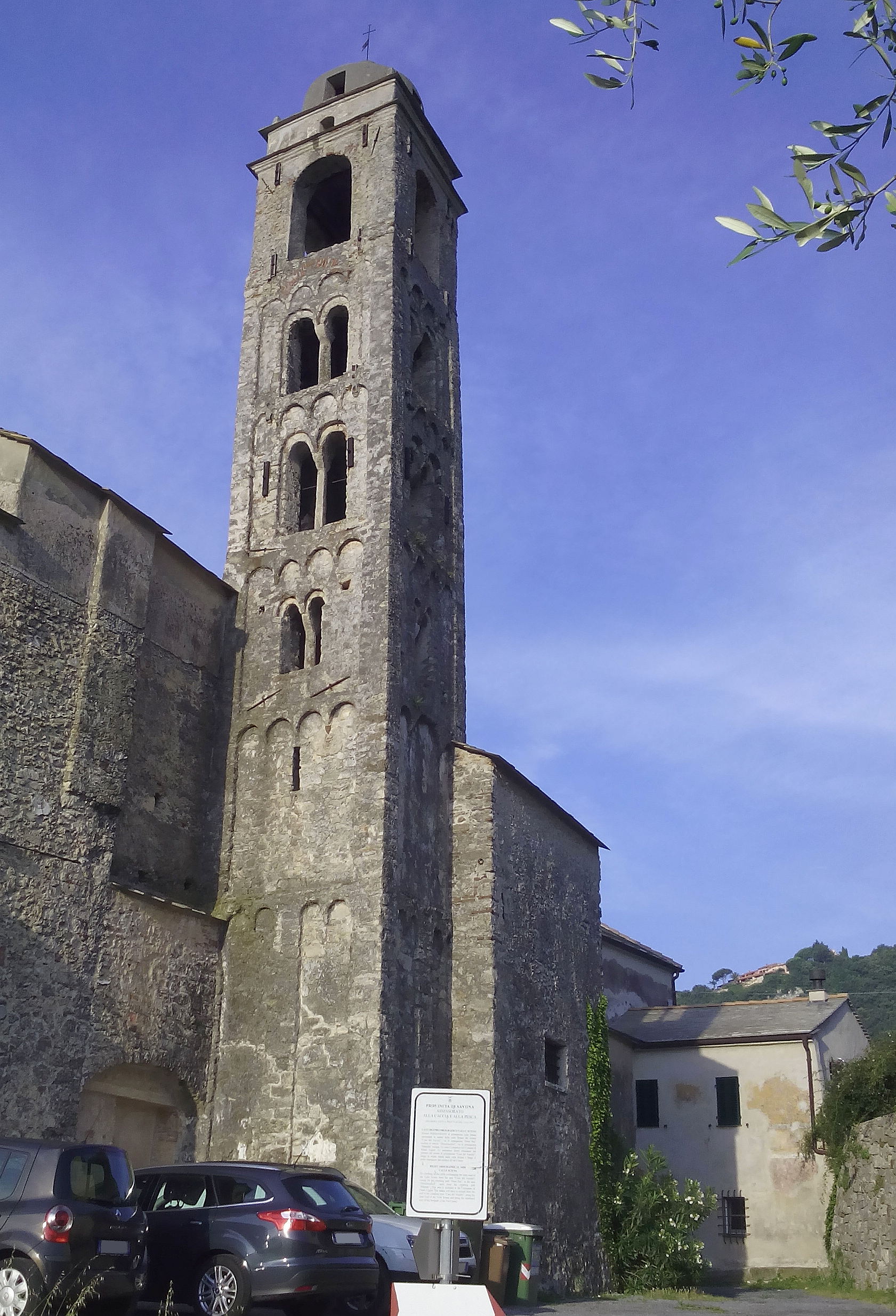 Calvisio (Finele Ligure, SV, Italy): old church tower